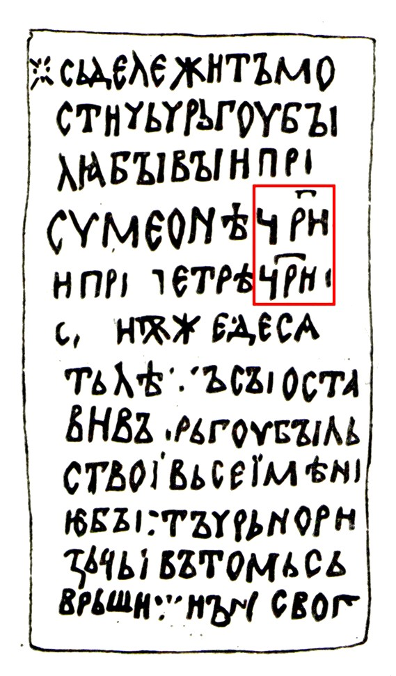 Redrawing of the epitaph of Mostich, Chărgubilya during the reigns of the Bulgarian Tsars Symeon I of Bulgaria and Peter I of Bulgaria from 10th century. - Jackanapes 17:33, 30 April 2007 (UTC)